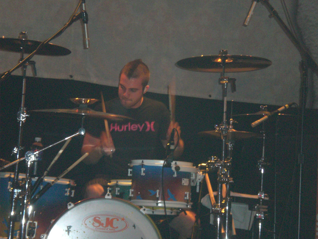 Rian Dawson of American pop punk band All Time Low performing on the AP Tour in February 2006.